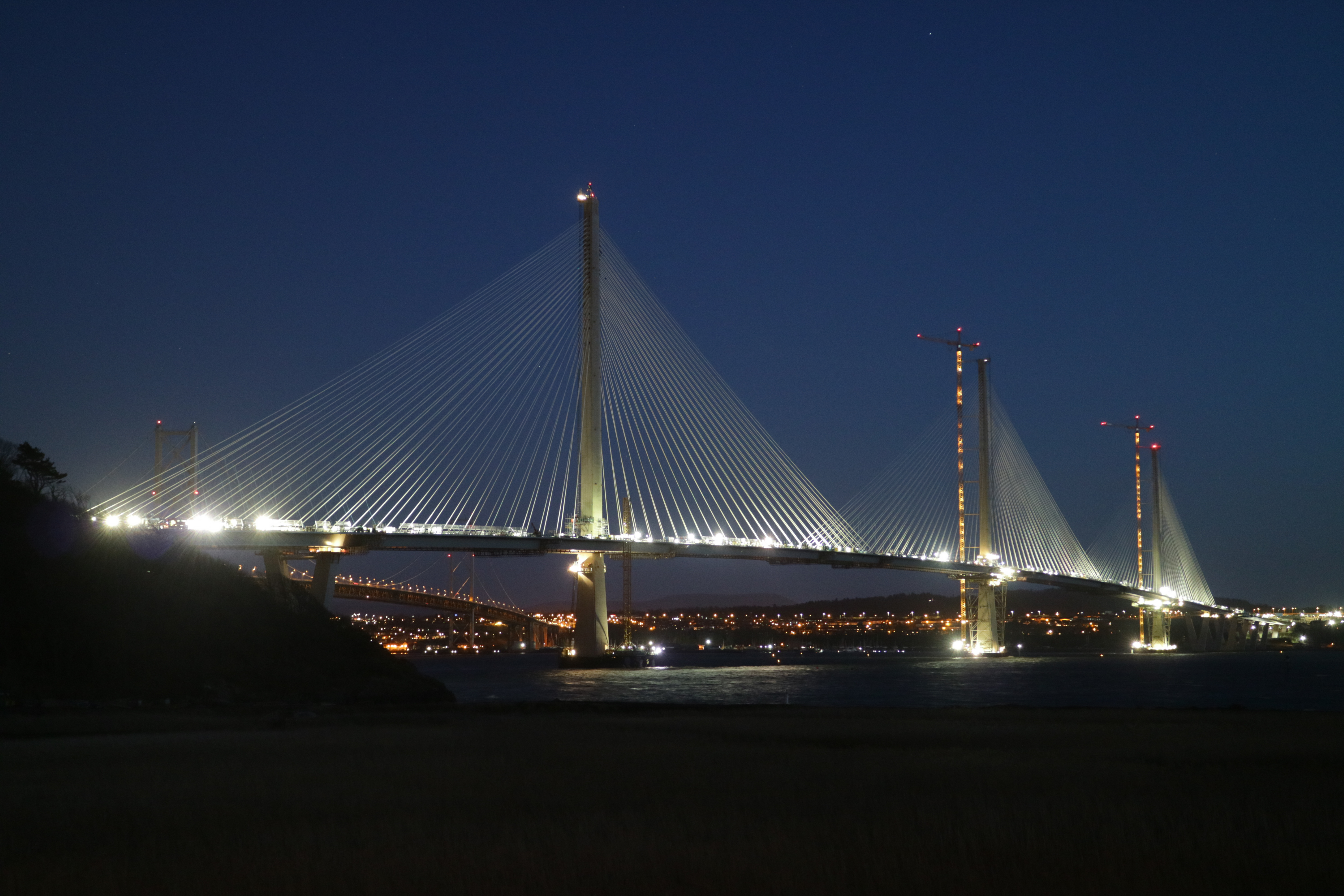 Queensferry Crossing by night.